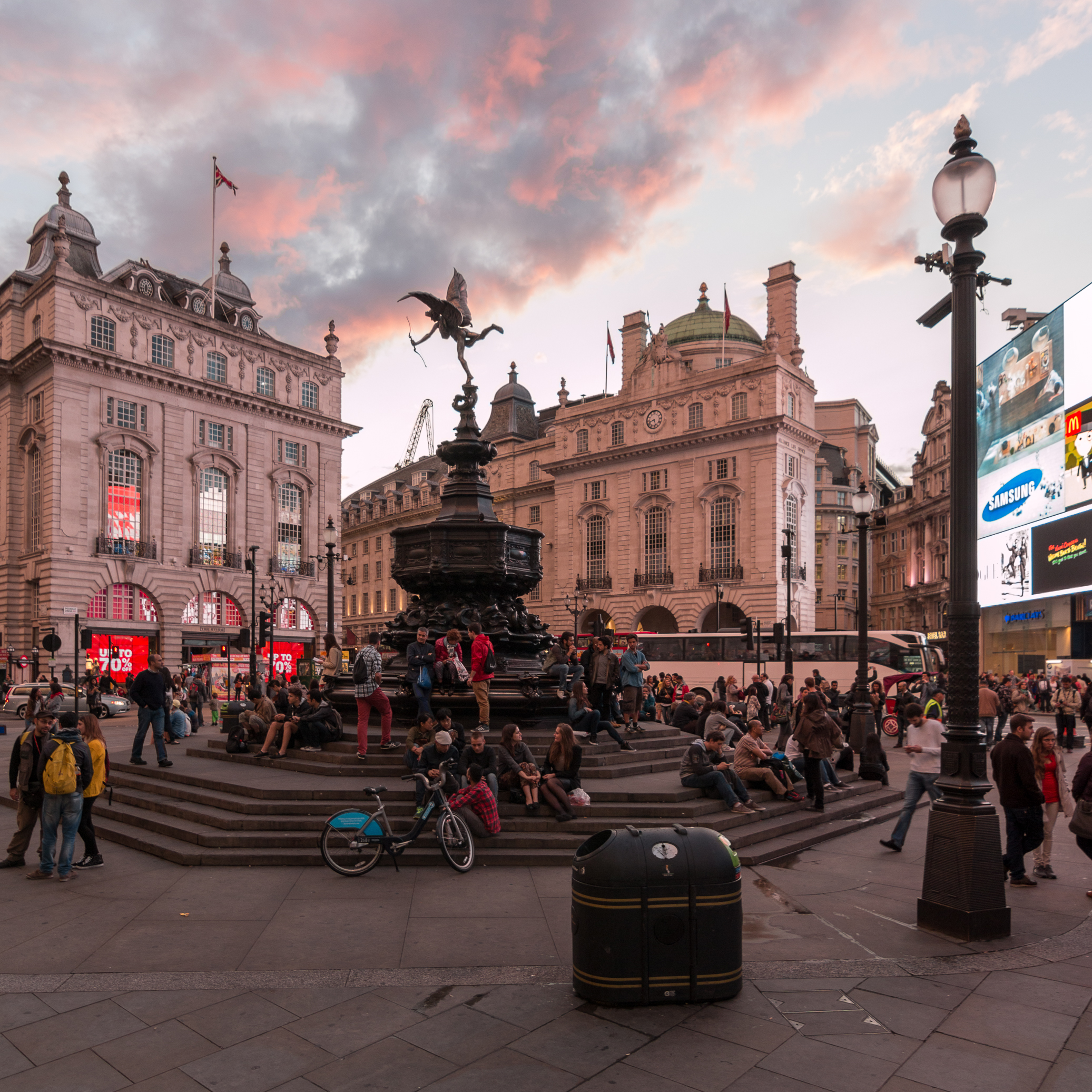 Shaftesbury Memorial Fountain at the Piccadilly Circus